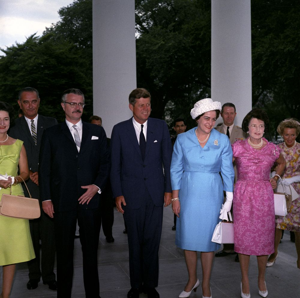 Luncheon in honor of Carlos Julio Arosemena Monroy, President of Ecuador, 23 July 1962, 1:00PM “Robert Knudsen. White House Photographs. John F. Kennedy Presidential Library and Museum, Boston”